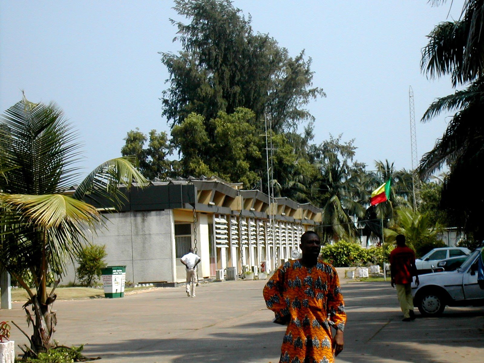 This is the home of Benin National TV (ORTB) in Cotonou, Benin. It is where the Director has his office.